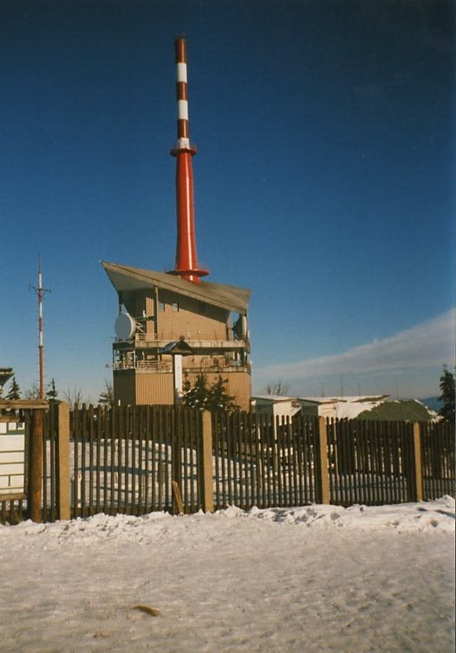 This image shows the television tower on top aof the Lysá hora, the highest peak of Moravian-Silesian Beskids in the Czech Republic.